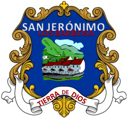 San Jeronimo Seal.